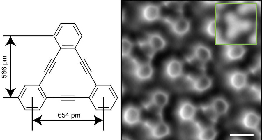 (left) Chemical structure of triangular dehydrobenzo[12]annulene (tDBA); (right) high-resolution AFM image of tDBA on Ag(111). Inset shows the STM topography. Measurement parameters: Vtip=0 mV and A=60 pm in b and Vtip=−200 mV and I=1 pA in (inset). Scale bar, 500 pm.